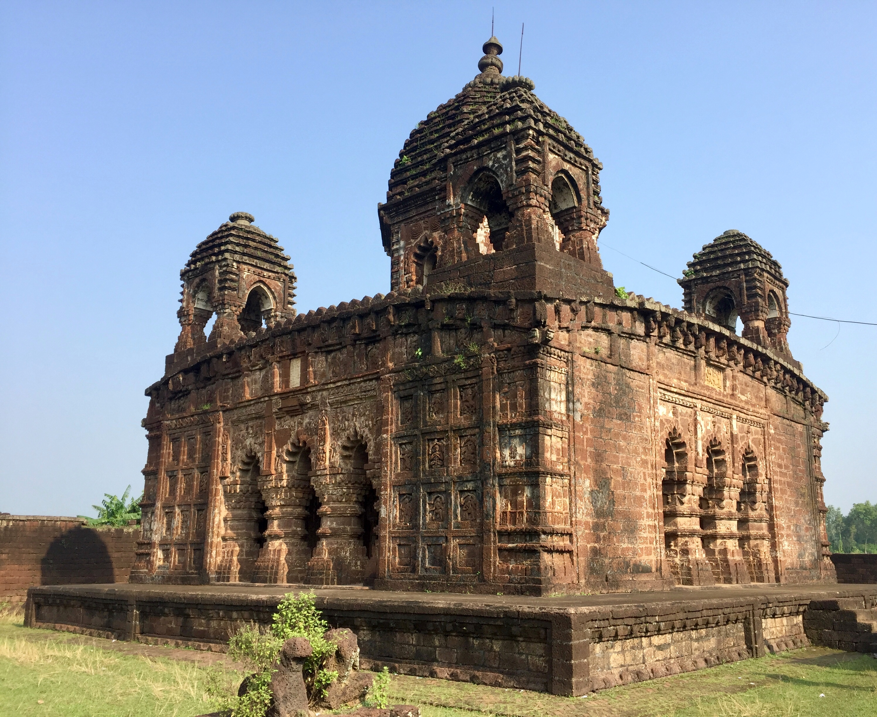 Gokulchand Temple,Gokulnagar,Bankura District.